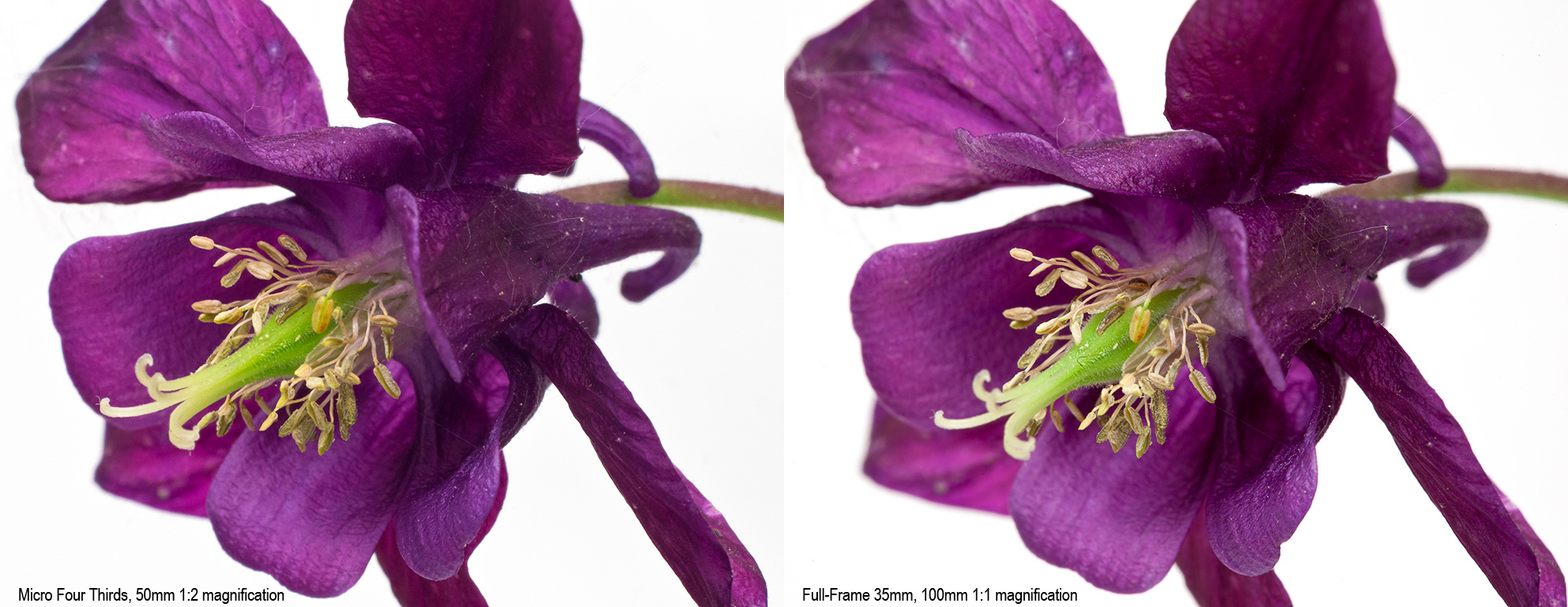 This is a macro photograph of a columbine flower taken with two different format cameras. The photograph on the left was taken with a Micro Four Thirds (2x crop) sensor camera and a 50mm macro lens at 1:2 magnification. The photograph on the right was taken with a Full-frame digital SLR 35m sensor camera with a 100mm macro lens at its highest 1:1 magnification. The photographs are equivalent and nearly indistinguishable, however the smaller sensor camera benefits from a greater depth of field which is desirable in macro photography.